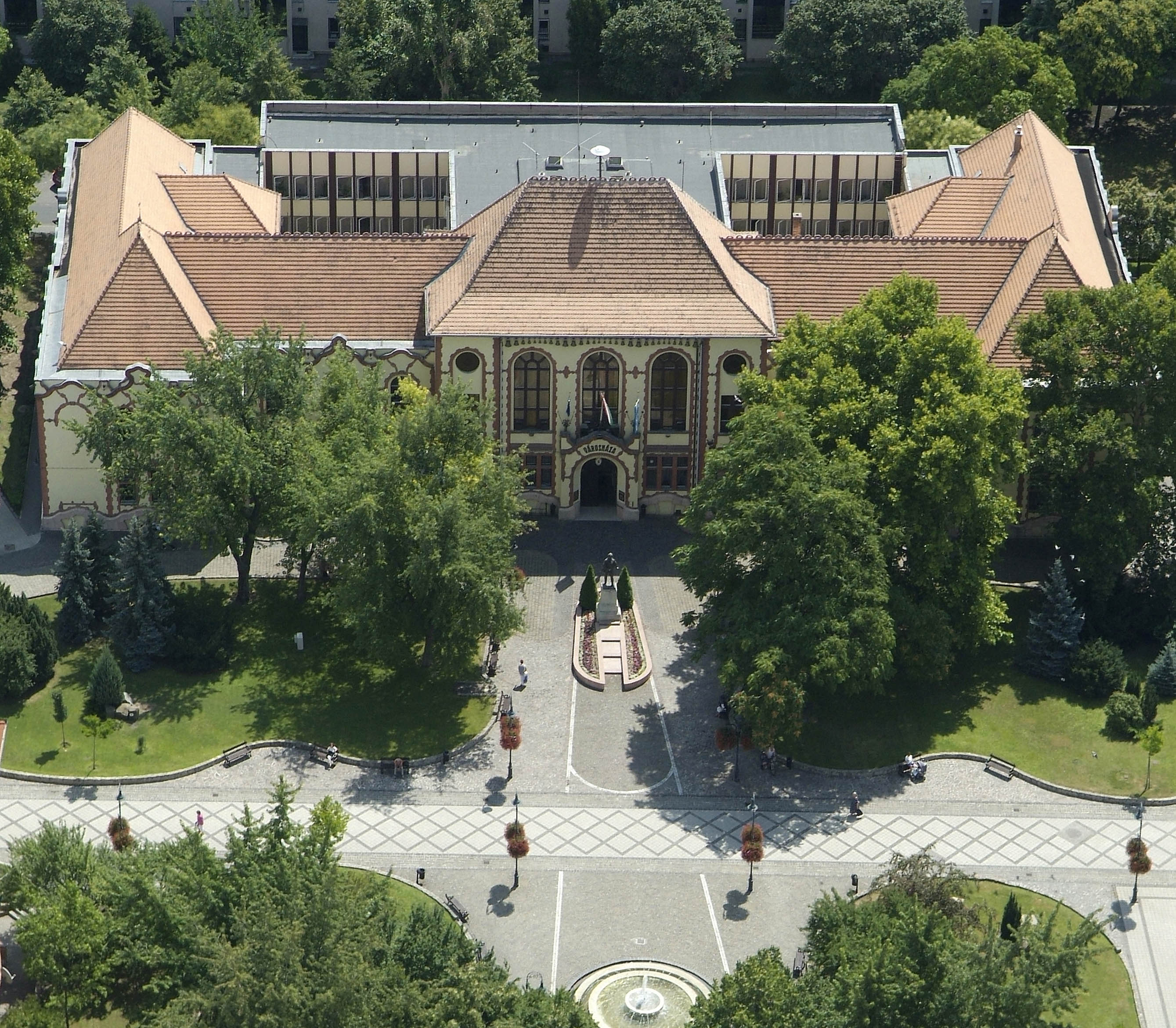 XX. District Budapest, Hungary, aerial photography, local government